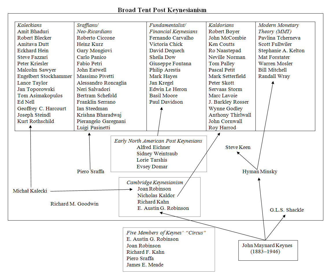 A family tree of the Post-Keynesian school of economics.